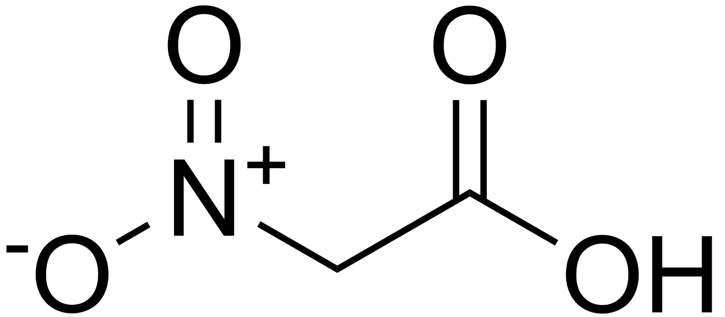 Chemical structure of nitroacetic acid